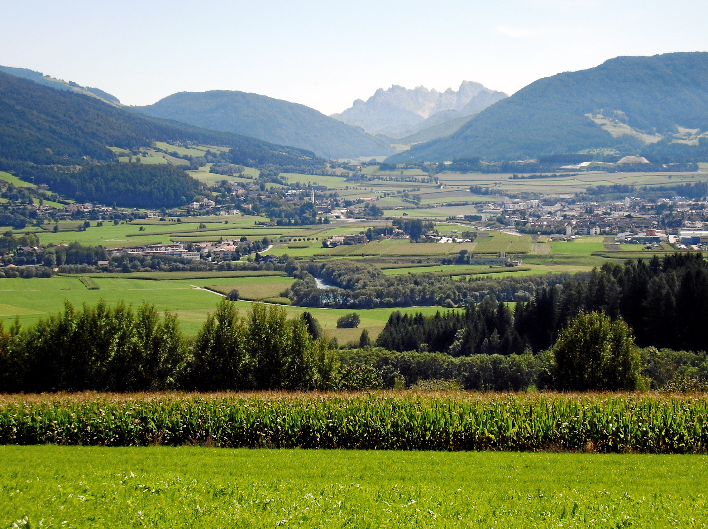 View eastwards of the Pustertal from St. Georgen (Bruneck) with the Pragser Dolomites